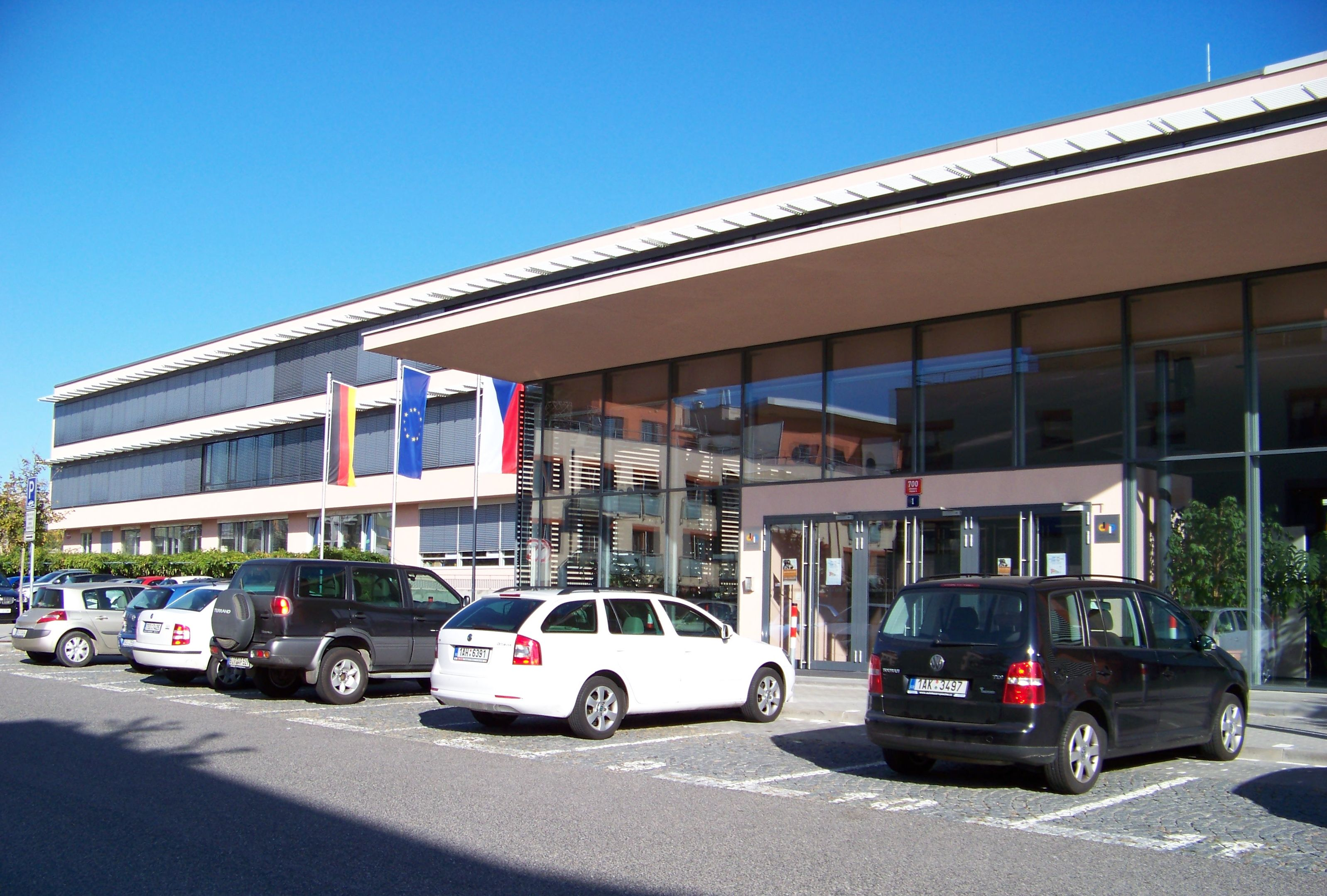 Schwarzenberská 700/1, Jinonice, Prague, Czech Republic. German School in Prague.